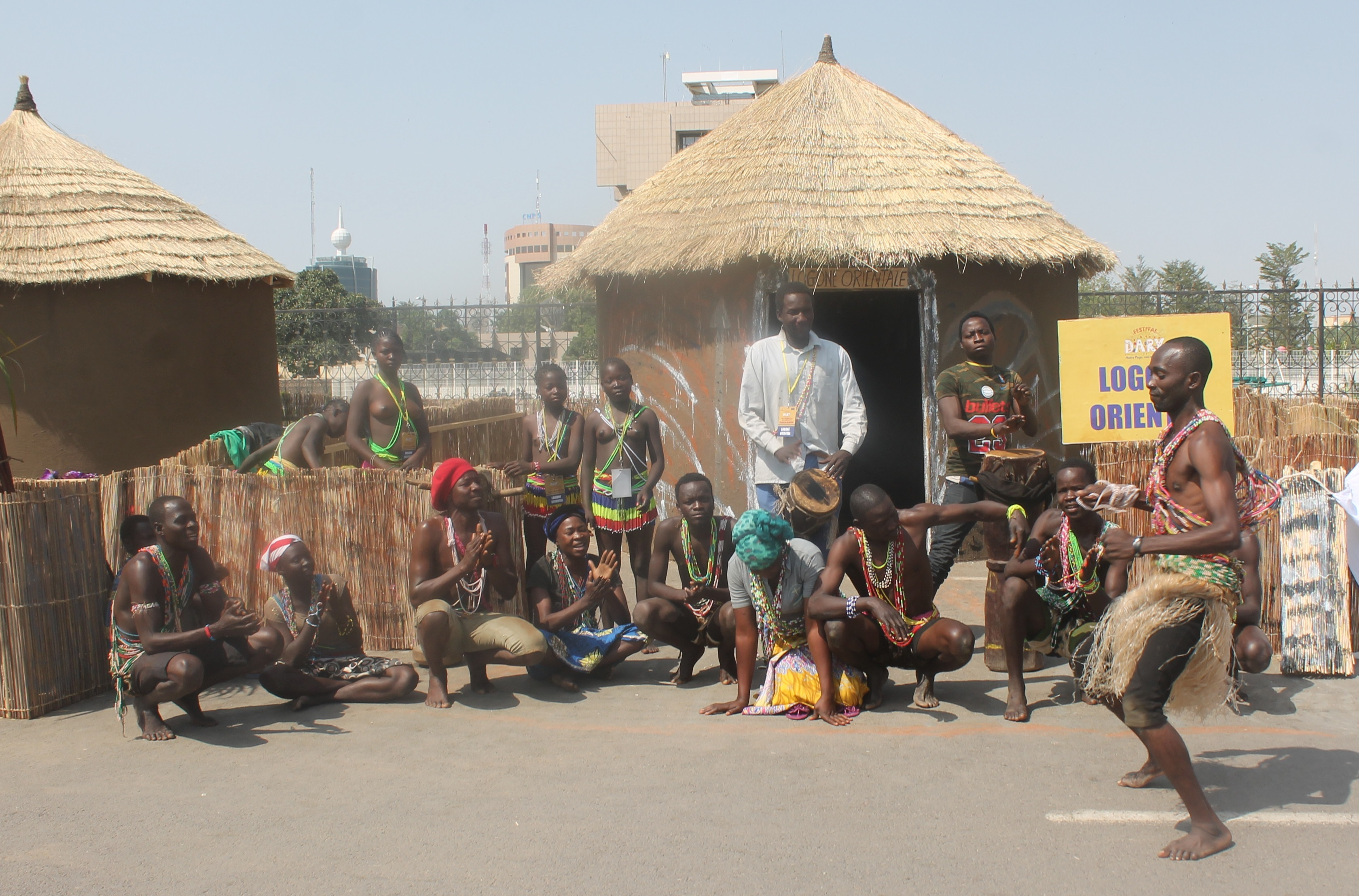 This is an image with the theme "Play" from: Chad